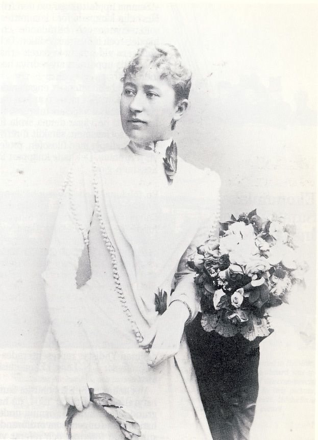 Cely Mechelin (1866–1950), Leo Mechelin's daughter